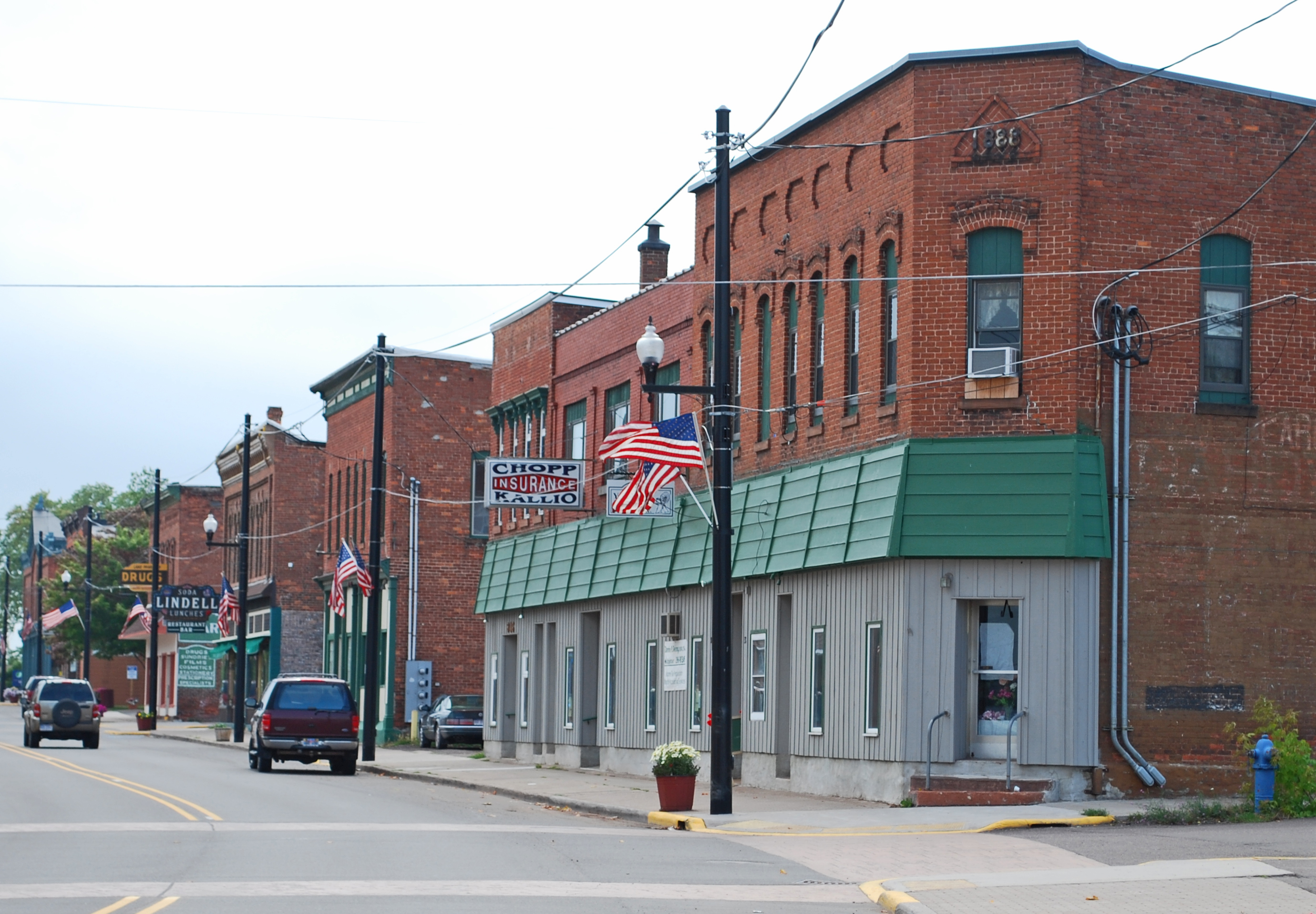 Lake Linden MI Historic District Streetscape